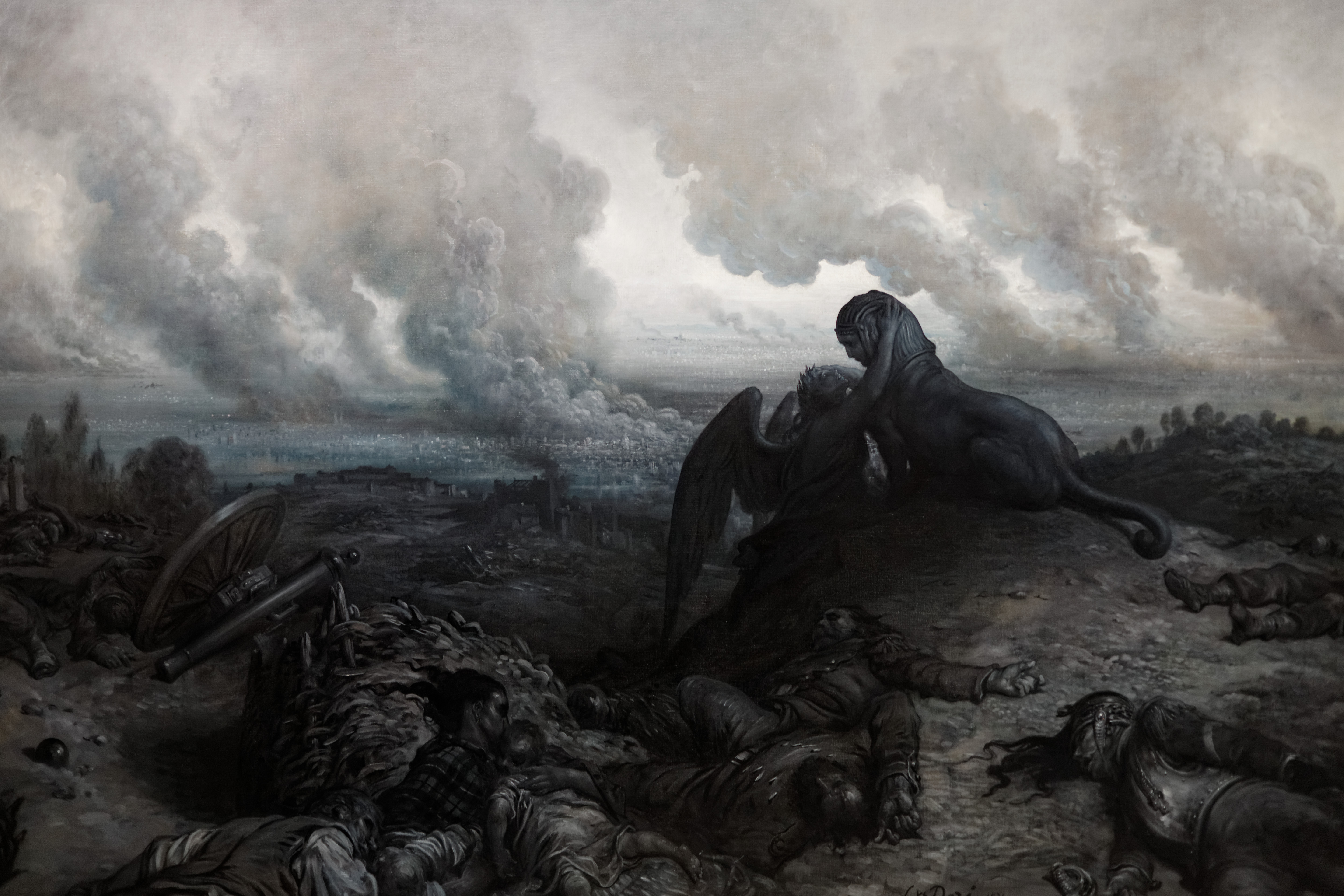 Allegorical painting of Humanity facing the horrors of defeat and, more generally, the end of the world.